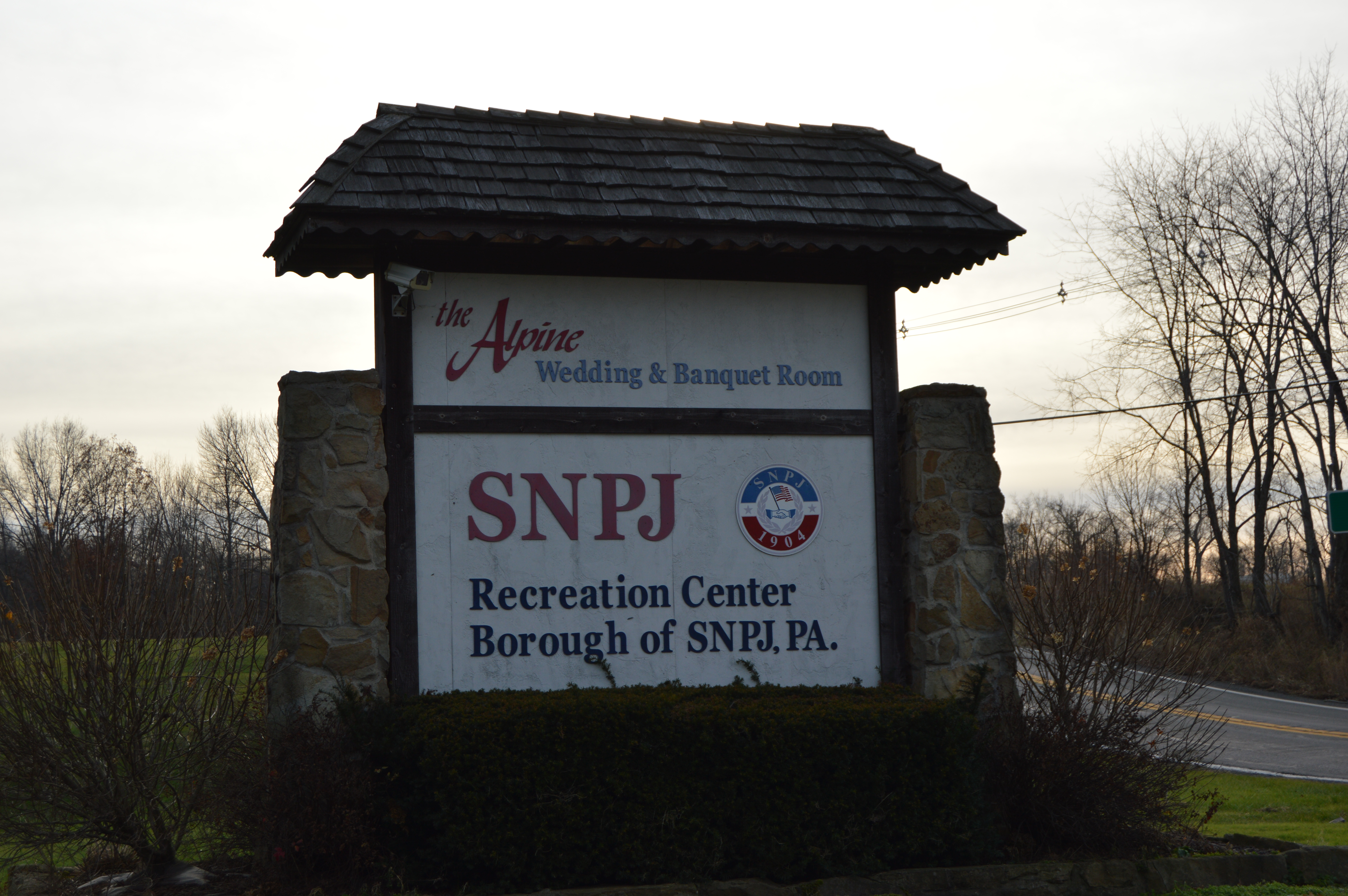 Large sign at the junction of Martin Road and Pennsylvania Route 108 welcoming passersby to the Slovene National Benefit Society recreational complex in S.N.P.J., Pennsylvania, United States. The complex composes virtually the entire borough, which is one of Pennsylvania's least populous municipalities.